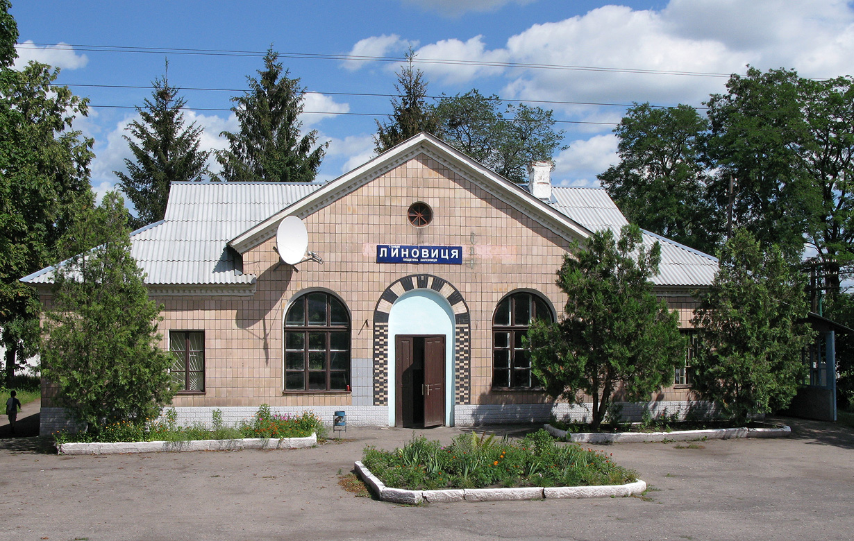 Lynovytsia railway station, Southern Railway, Ukraine